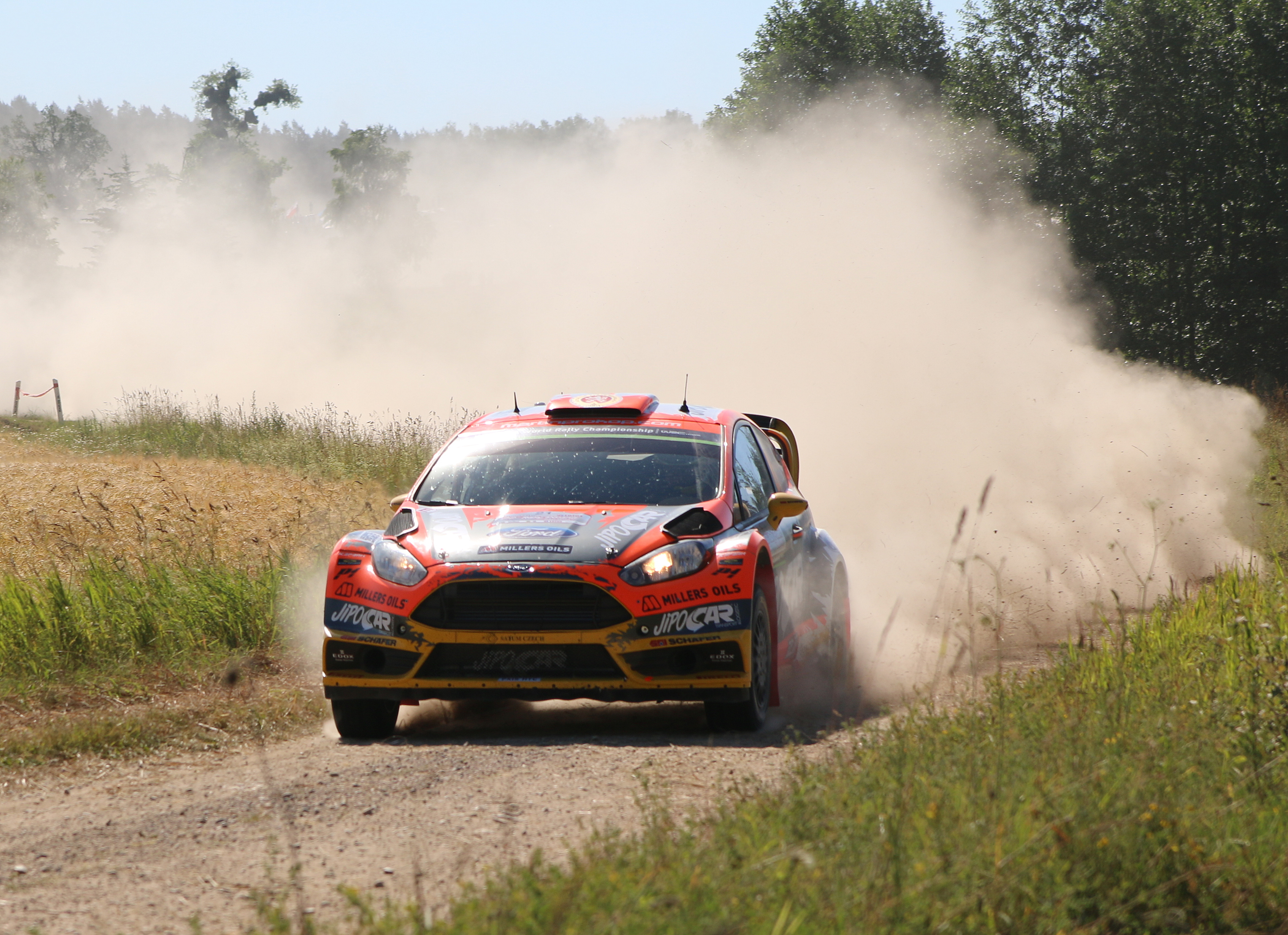 Martin Prokop, OS 10 Mazury, 72nd LOTOS Rally Poland